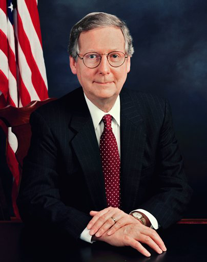 U.S. Senator Mitch McConnel of Kentucky.